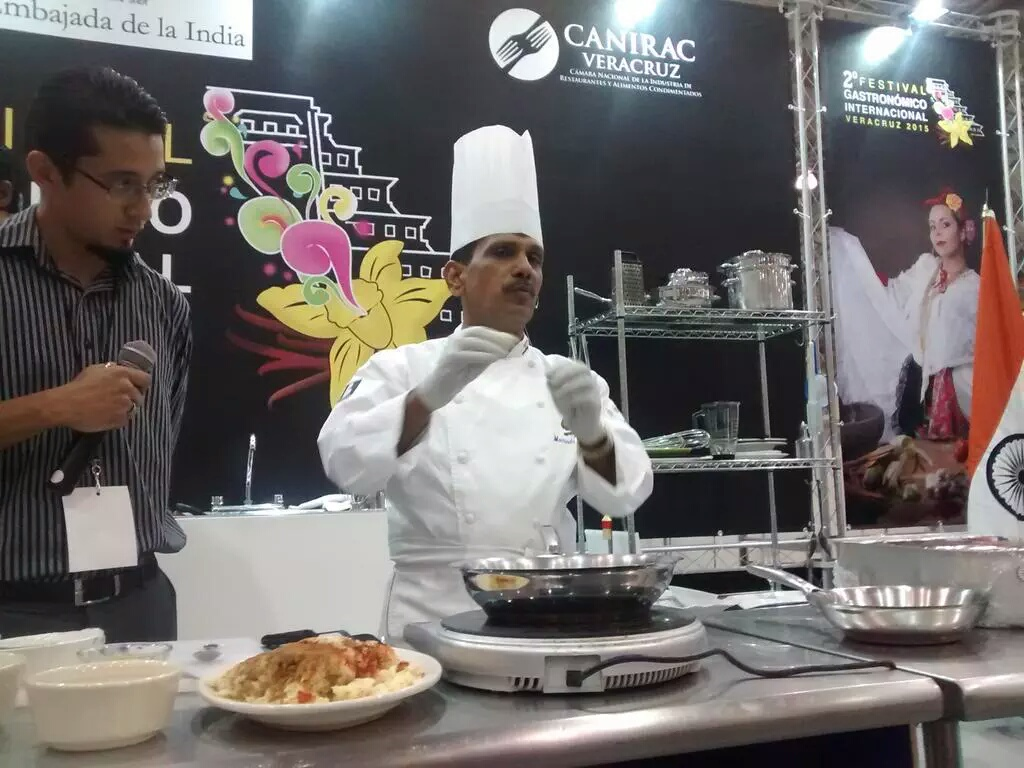 Chef Machindra Kasture at International Gastronomic Festival in Veracruz, Mexico in 2015.